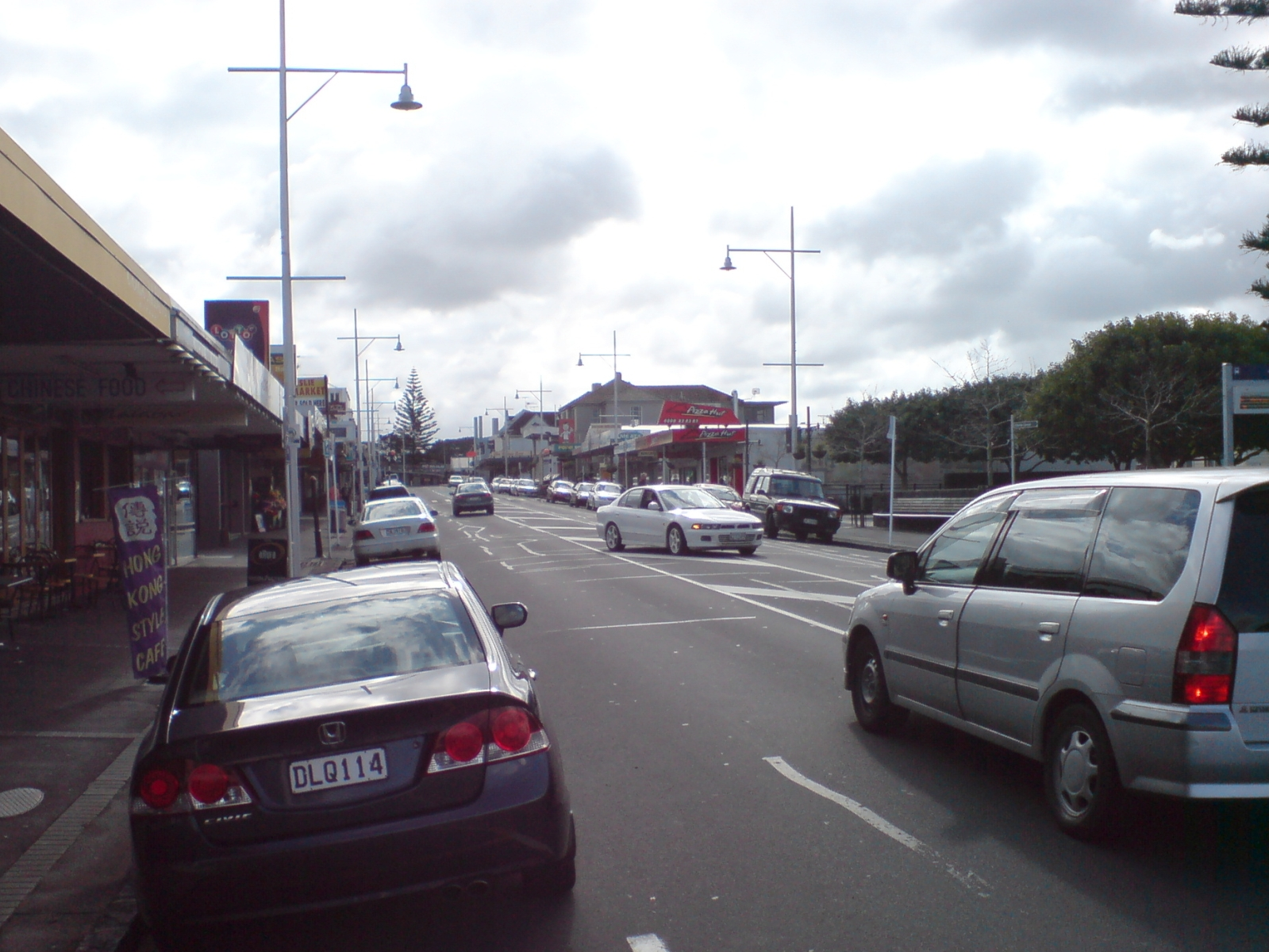 Ellerslie Town Centre, Auckland City, New Zealand. Looking west on Main Highway.